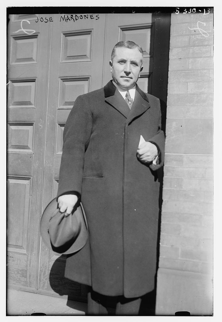 José Mardones at the Metropolitan Opera circa 1924